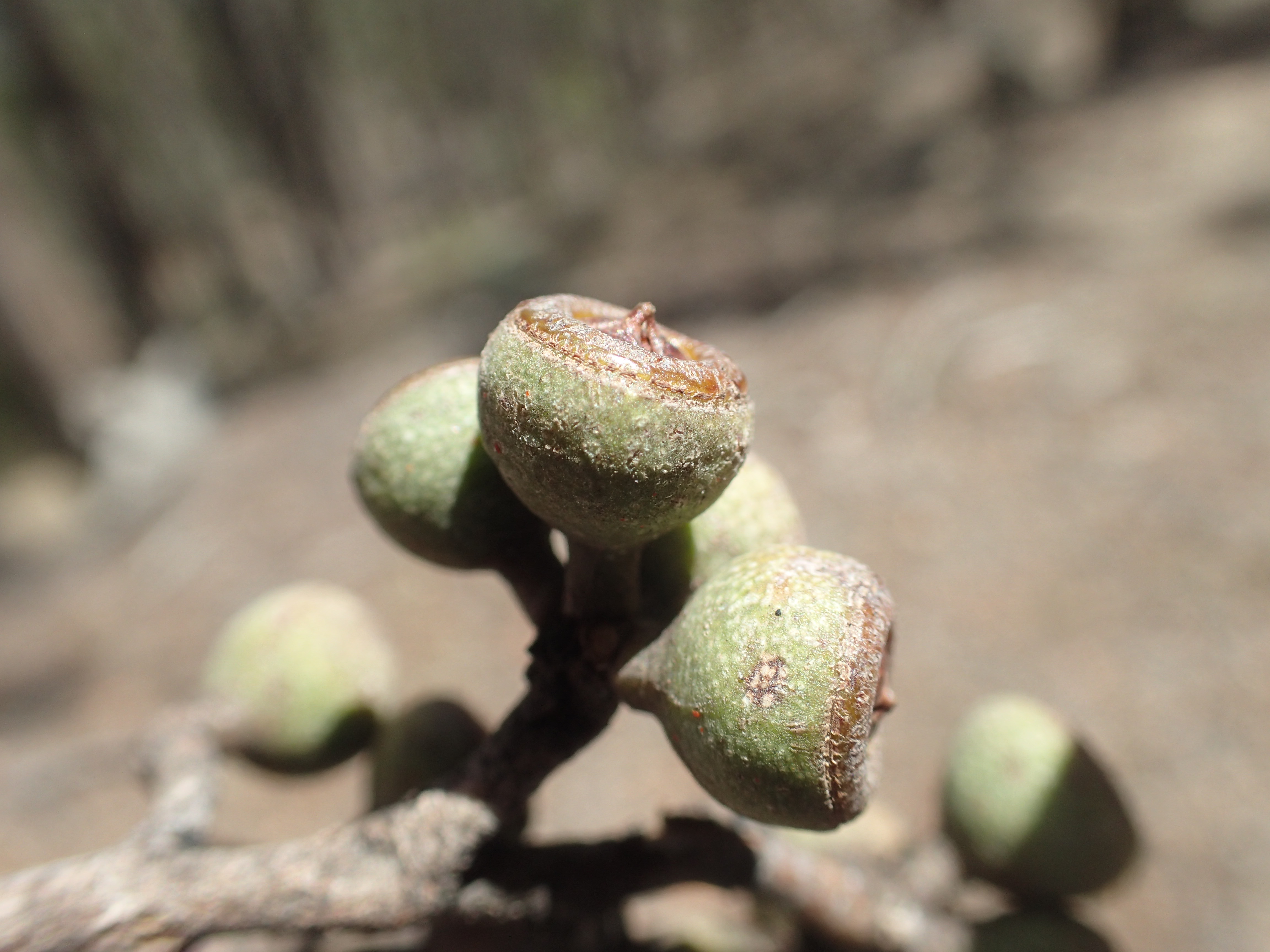 Immature fruit of Eucalyptus caliginosa